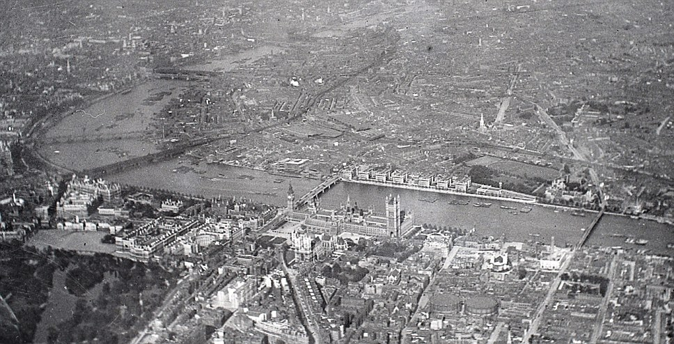 A picture of Westminster taken by scientist Sir Norman Lockyer in 1909 from a Helium balloon